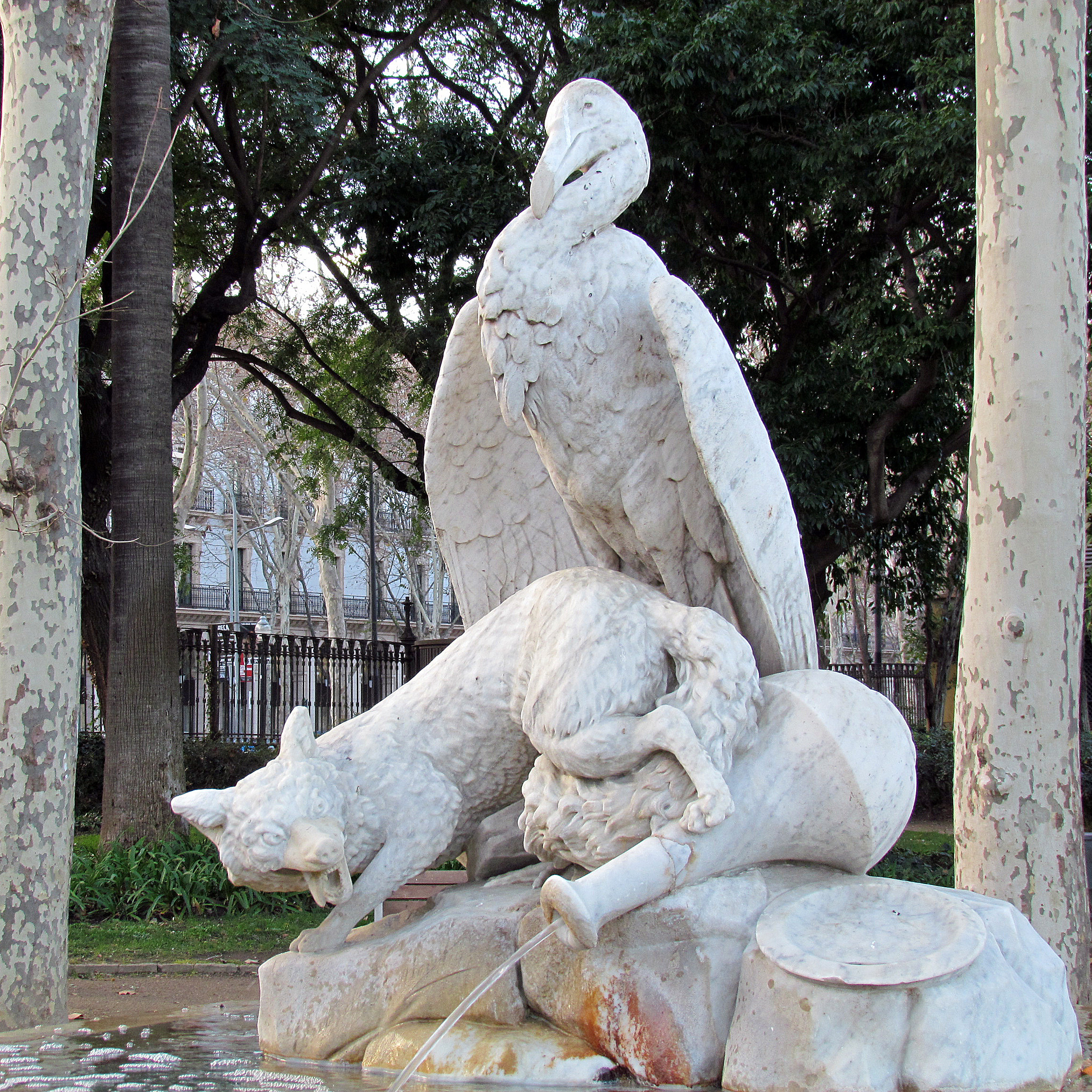 The stork and the fox fountain by Eduard Batiste Alentorn 1884, Ciutadella Park, Barcelona